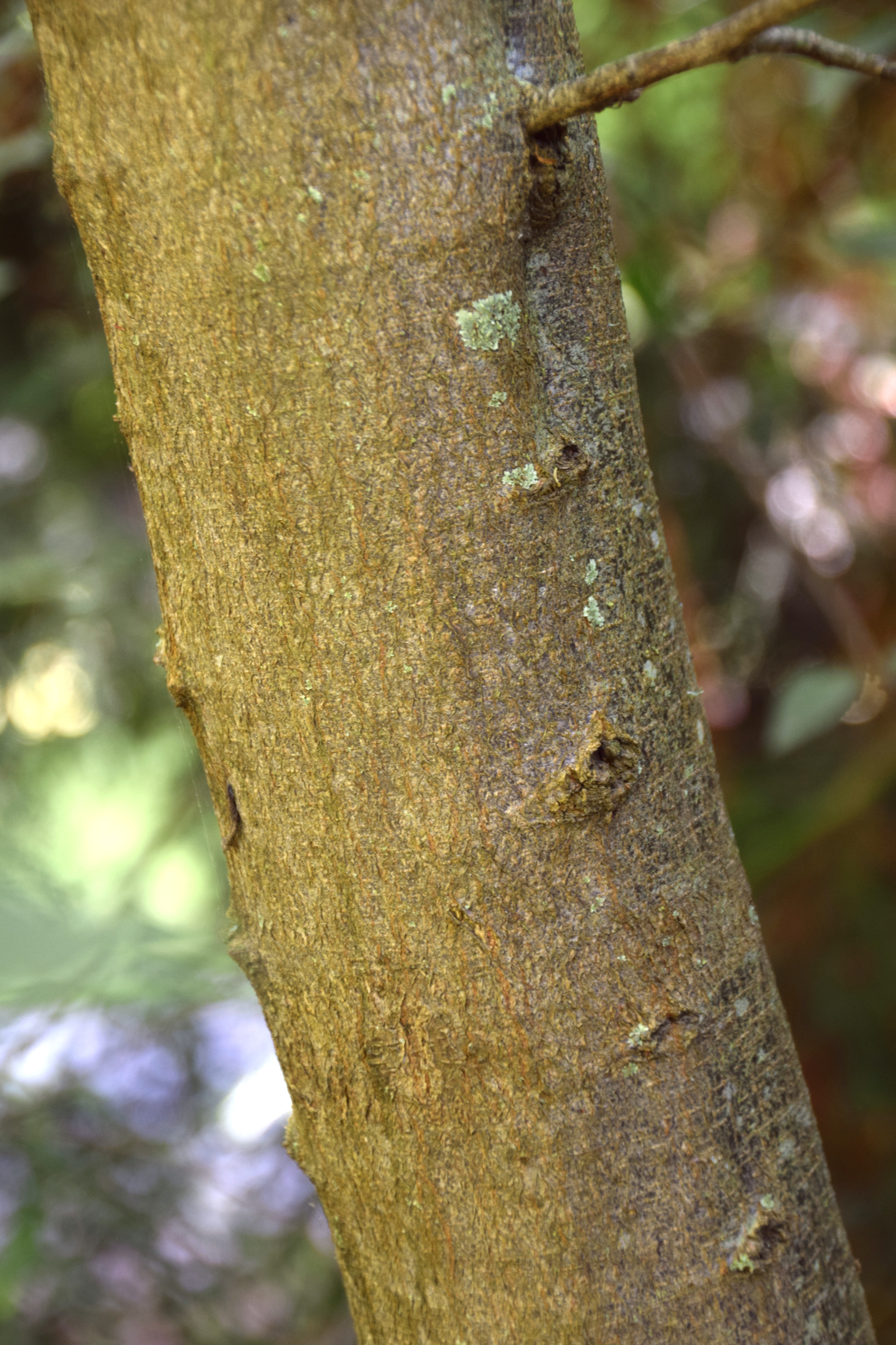 Carpinus kawakamii in Christchurch Botanic Gardens in Christchurch, Canterbury Region, New Zealand